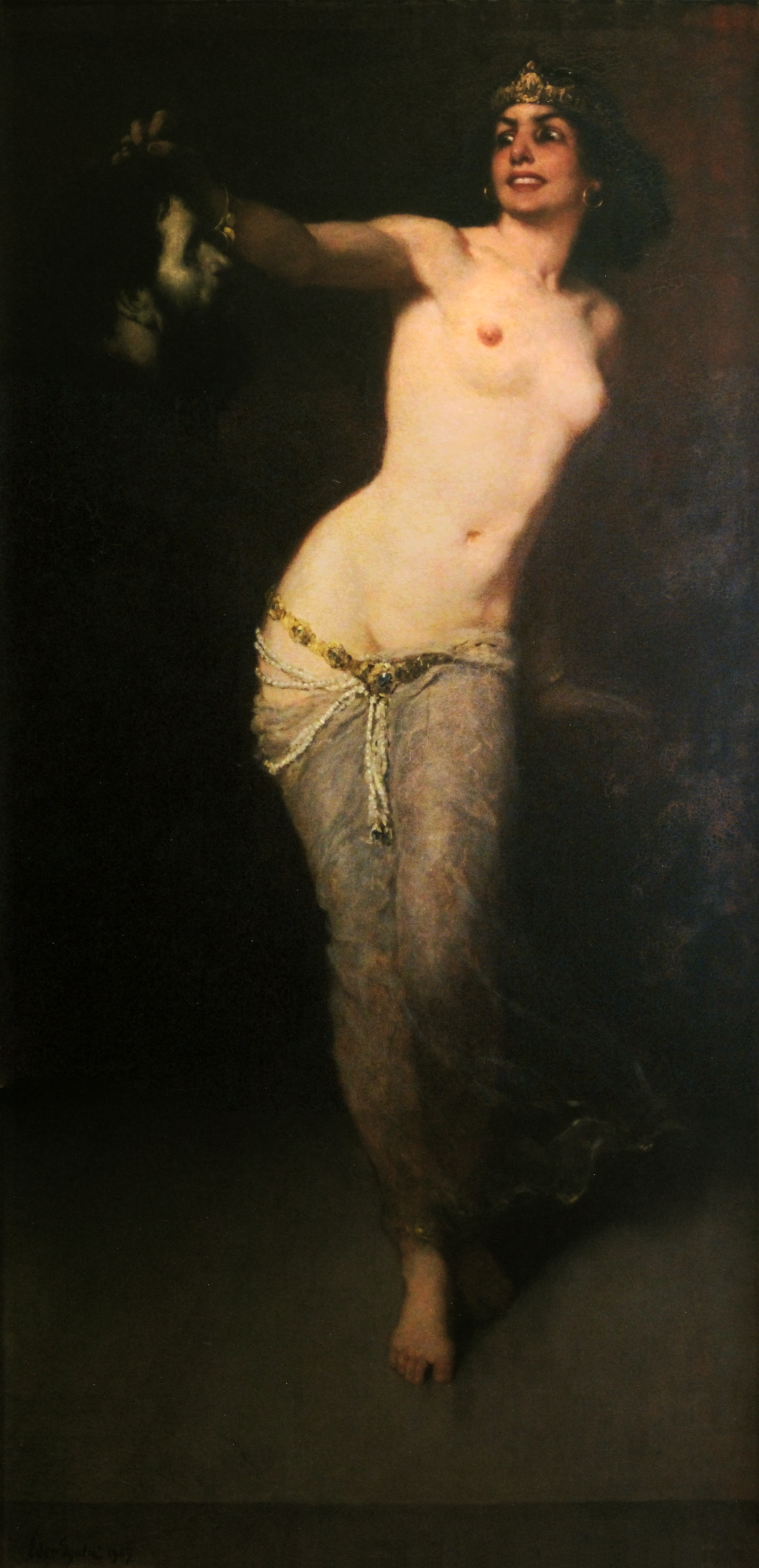 Éder Gyula (1875-1945), Hungarian impressionist: Salomé holding the severed head of John the Baptist (1907).